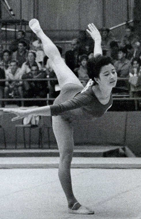 Kimiko Tsukada of Japan competes in the Artistic Gymnastics Women's Floor during the Rome Summer Olympic Games at Baths of Caracalla in September 1960 in Rome, Italy.